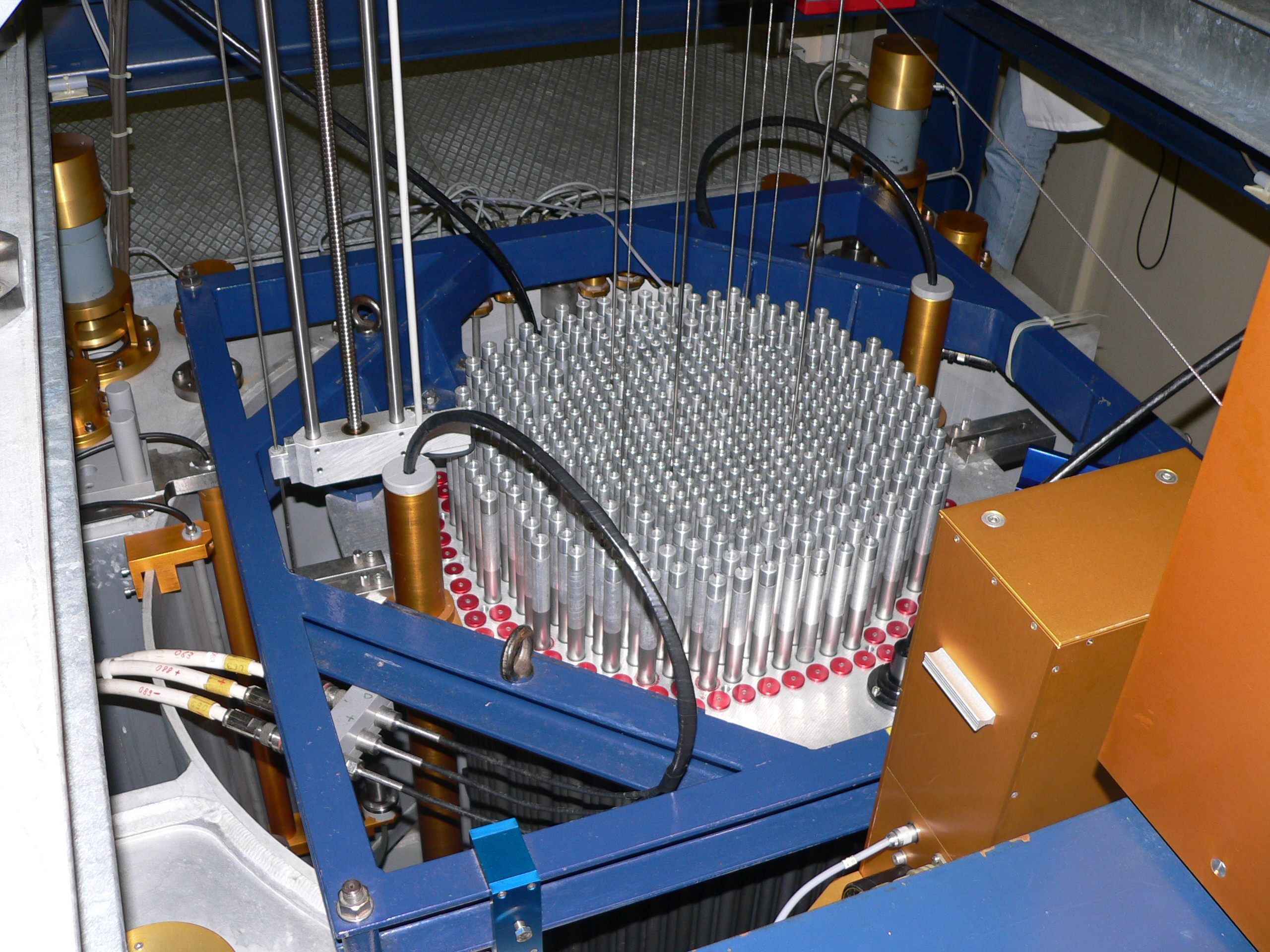 Nuclear installations at the EPFL CROCUS Reactor; CAROUSEL experiments; miscalenous experiments and manipulations; detectors and instruments. Core of the reactor. Note the strings and motors of the control rods (here engaged in the core), the water bassin (empty here) and the four expension vases which can evacuate the water from the bassin in less than a second (hence cutting off the reaction). Wholehearted thanks to René Frueh, chief of operations of CROCUS, for devoting a whole hours to open doors of this universe and explain technical details.